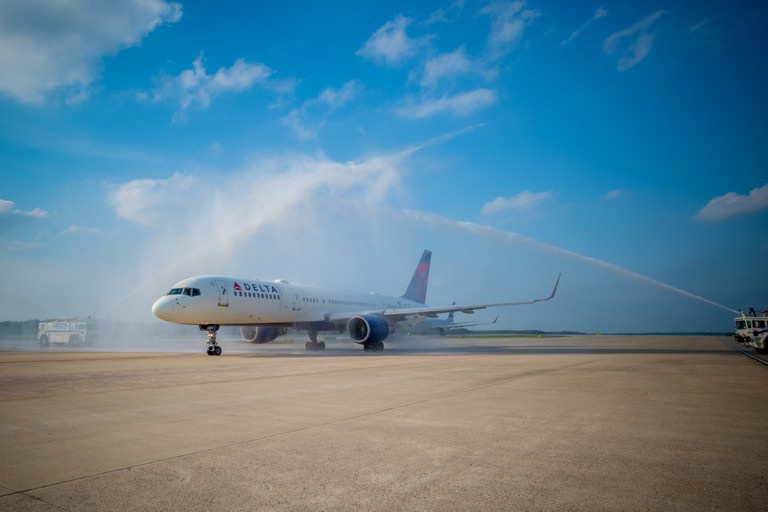 Inaugural flight from Raleigh to Paris